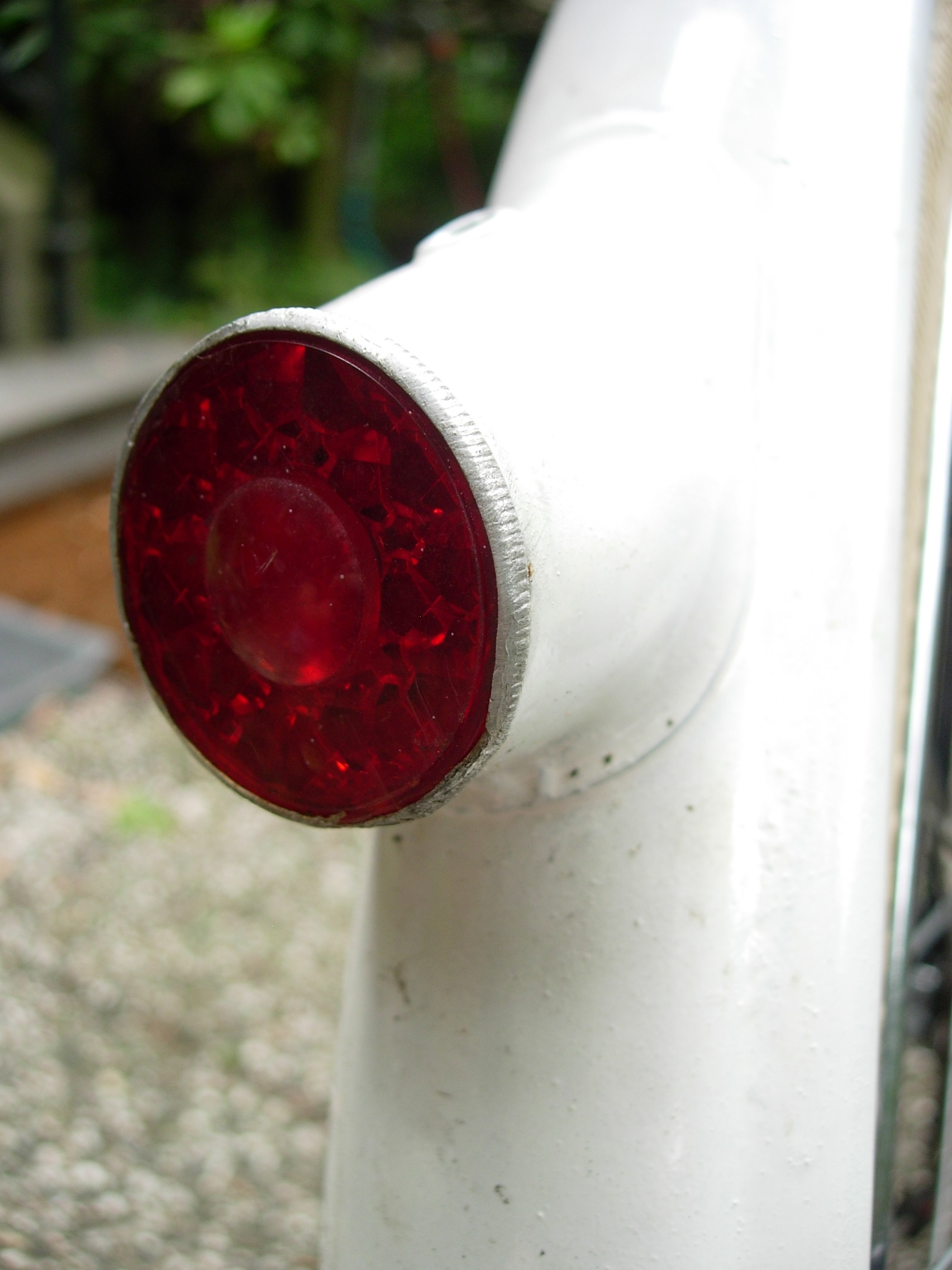 Gazelle vintage bicycle